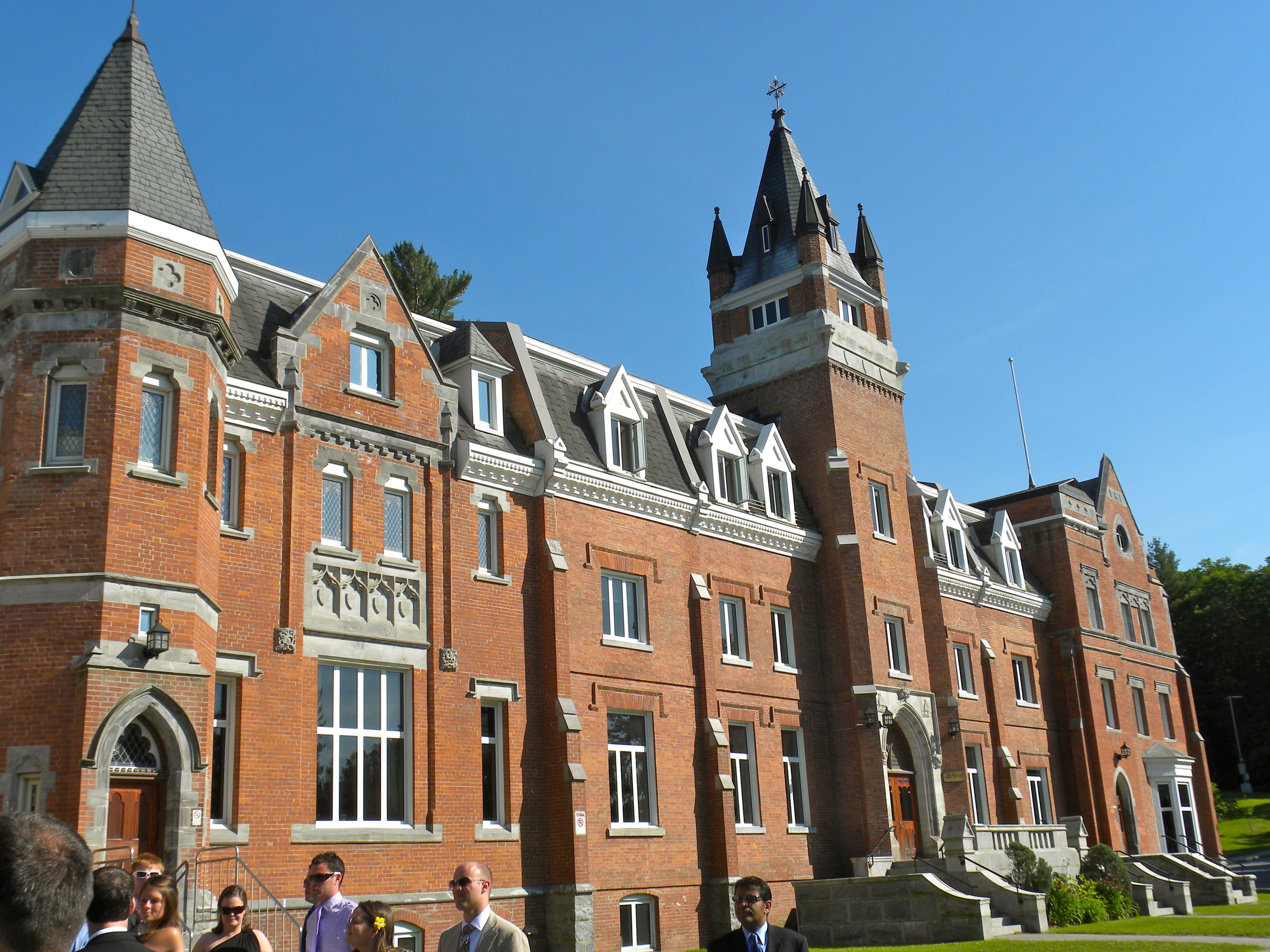 Bishop's University in the Sherbrooke borough of Lennoxville.